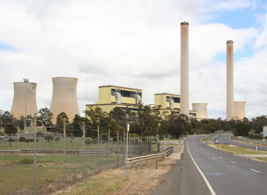 Loy Yang Power Station, Victoria, four generating units of Loy Yang A, 2200 megawatt capacity.